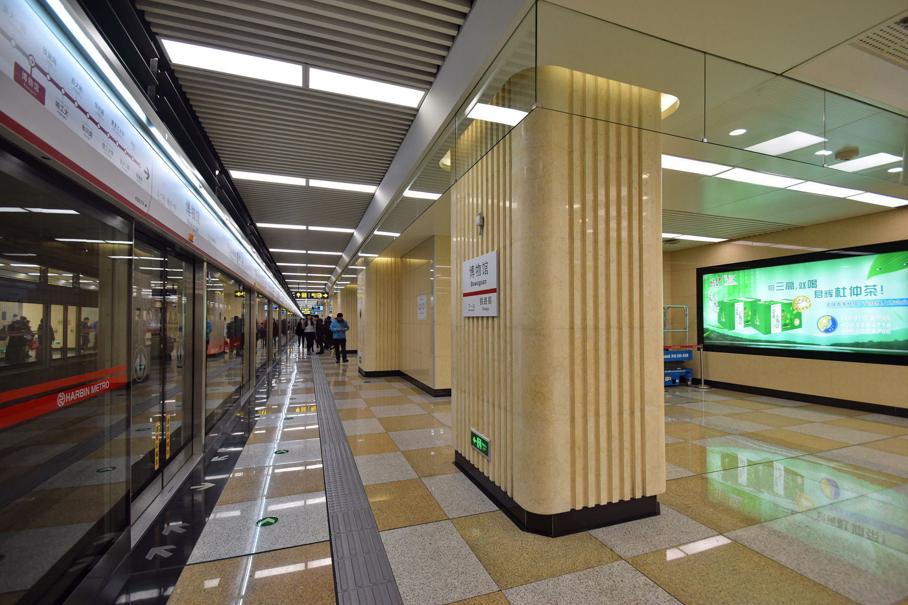 Platform of Bowuguan Station, Harbin Metro Line 1